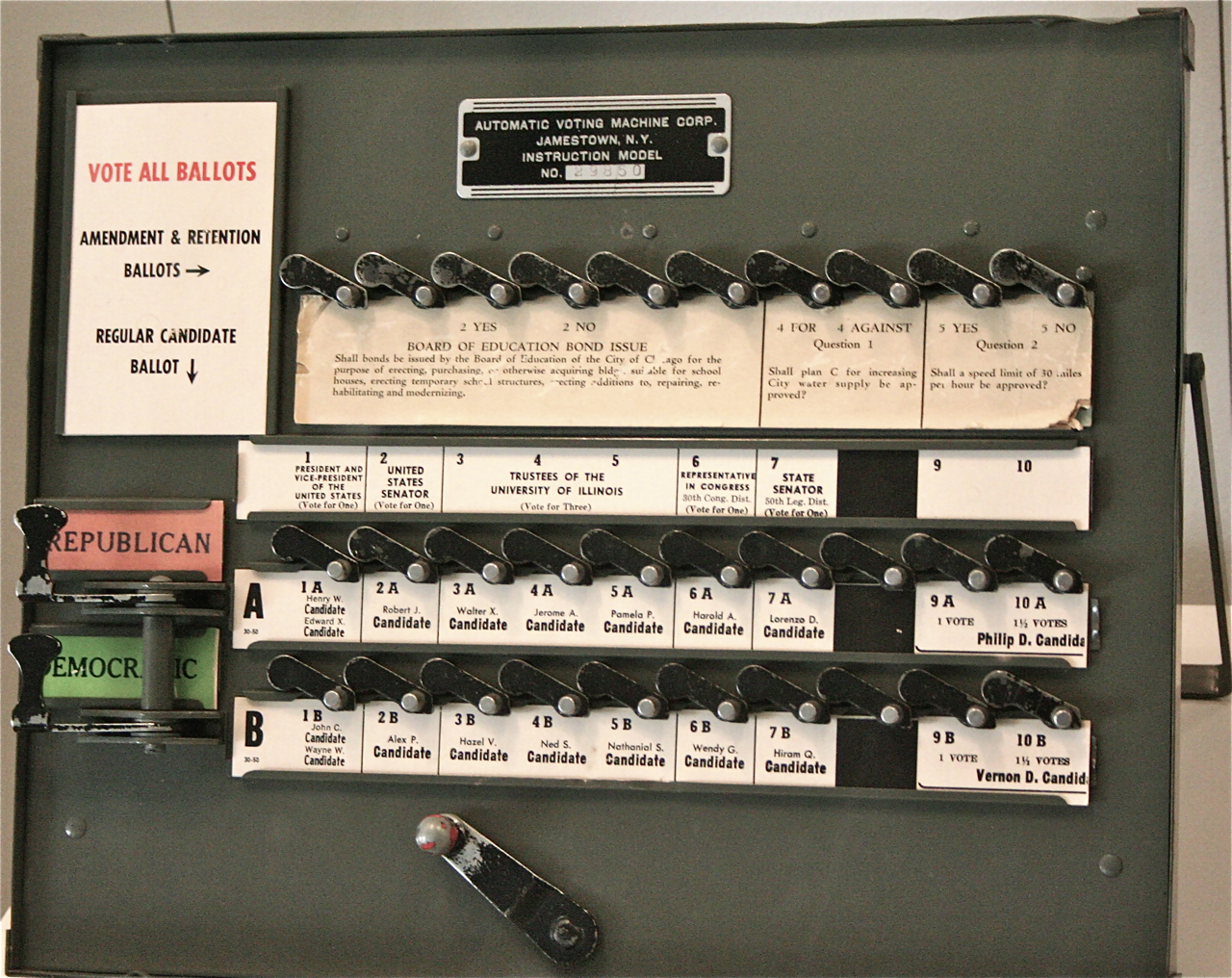 voting machine on display at the Smithsonian National Museum of American History